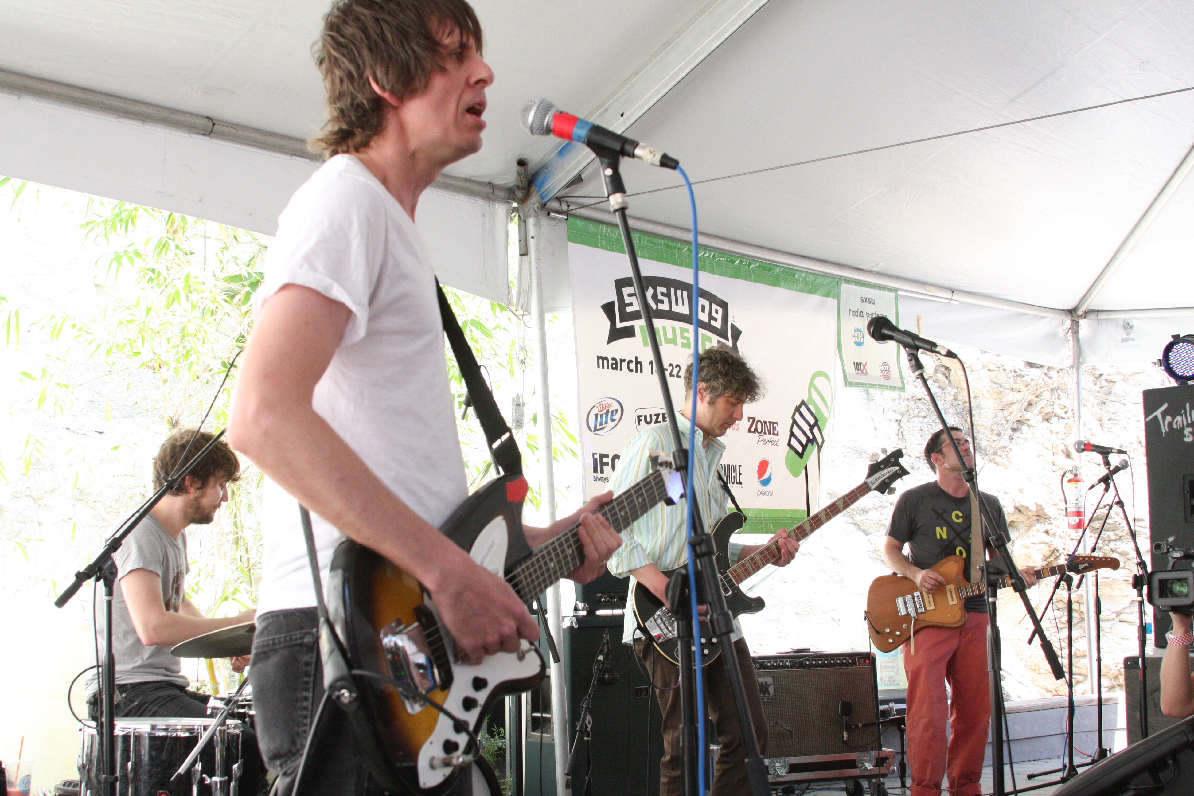 Obits performing at Club DeVille at the South by Southwest music festival in Austin, Texas on March 20, 2009.